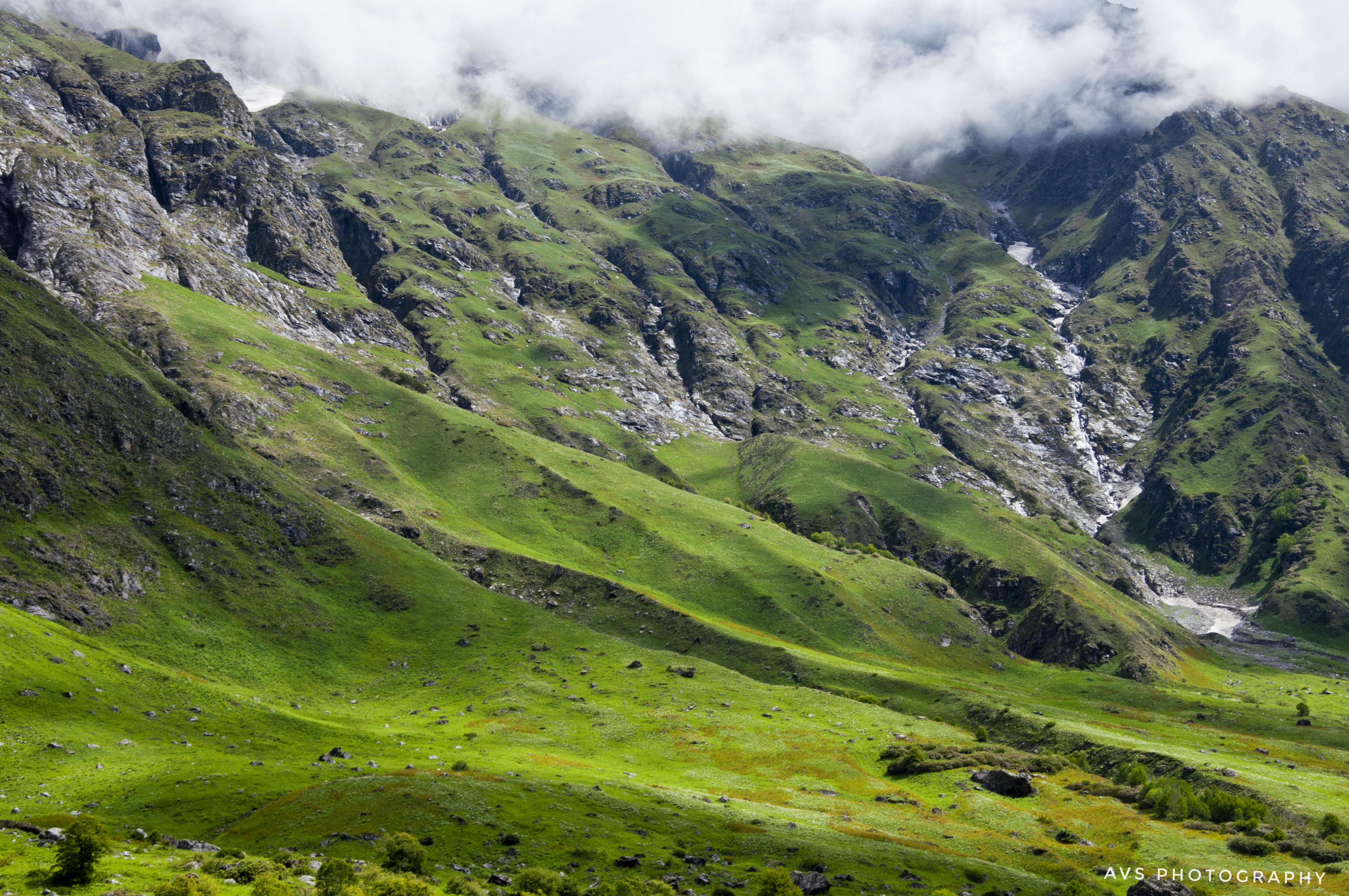 View of the valley of flowers after 2-3 kms of initial trek from Ghangaria.